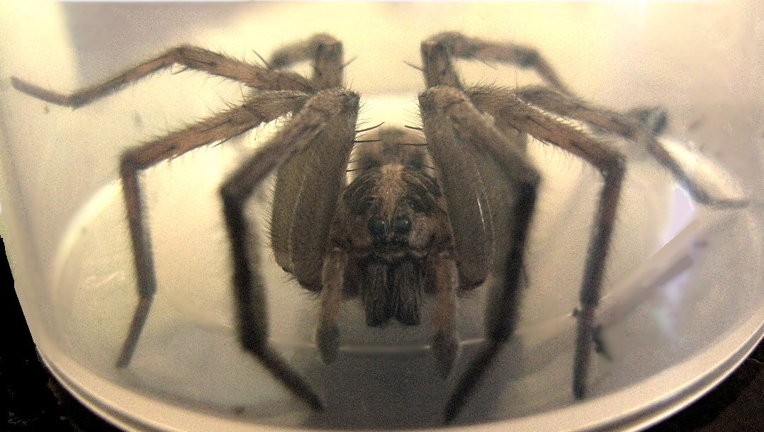 Front view of Lycosa tarantula, Barcelona